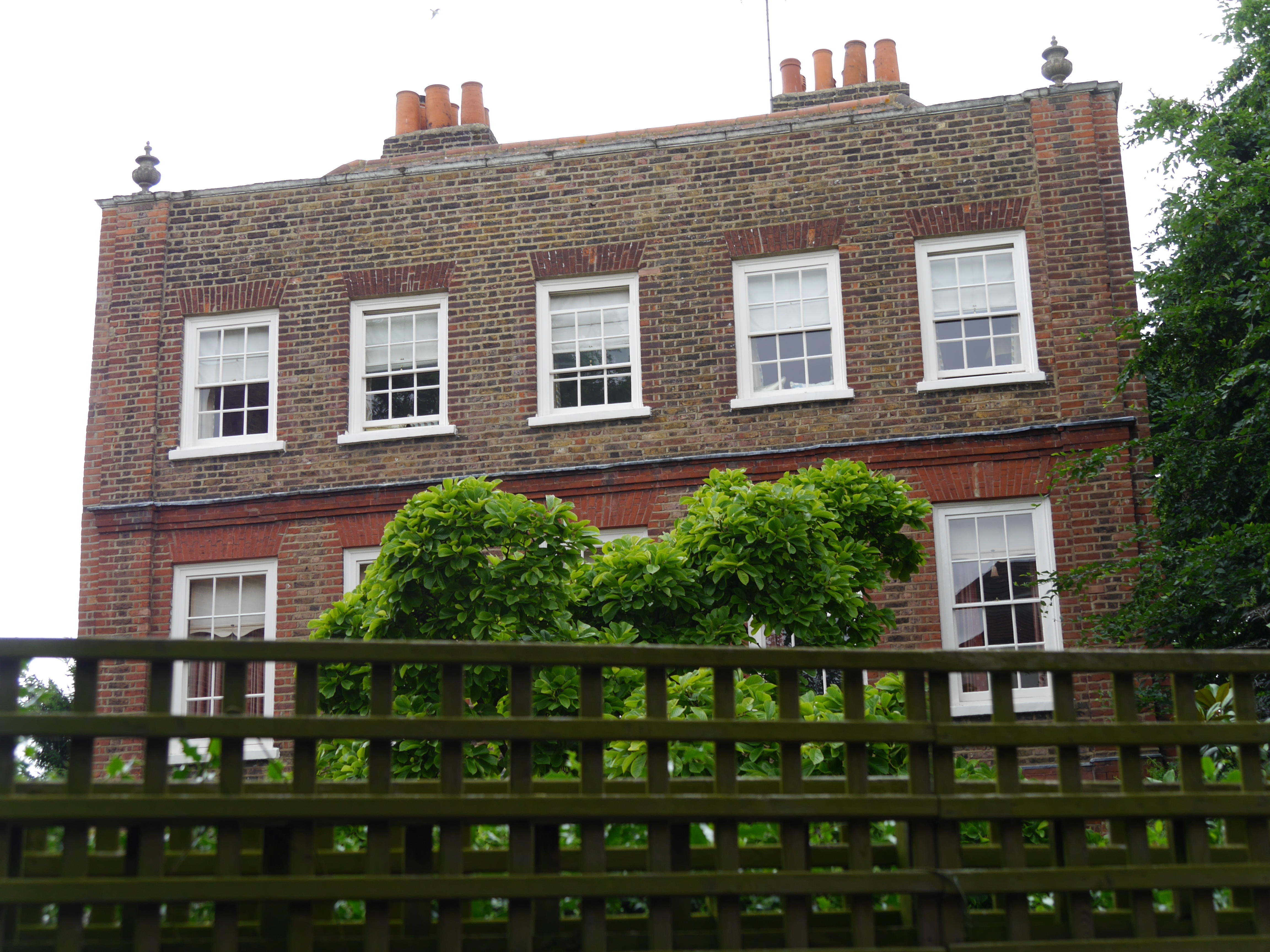 Sussex House INCLUDING BOUNDARY WALL TO NORTH Wikidata has entry Q17551300 with data related to this building.